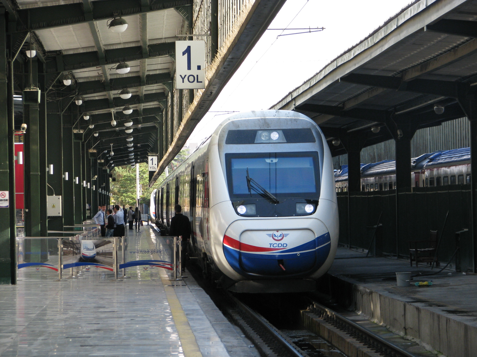 YHT Train at Ankara Central Station